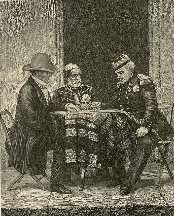 Lord Raglan, Omar Pasha and Aimable Pélissier